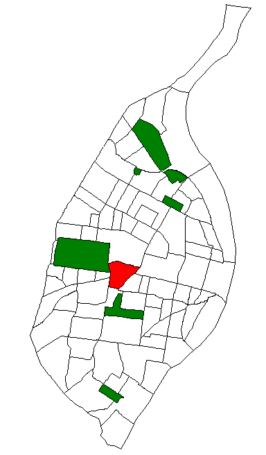 Map of St. Louis Neighborhood #39 (Forest Park Southeast)